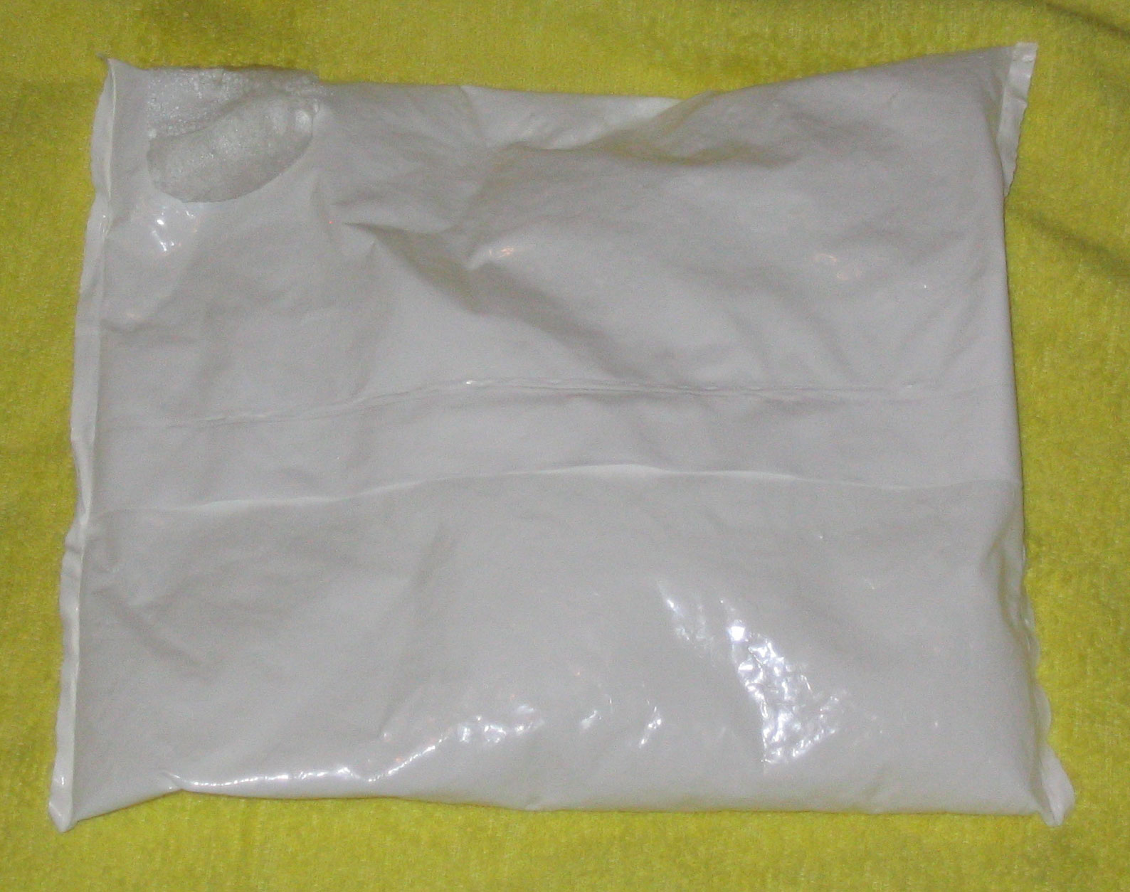 This is a (rather poorly composed) photograph of an icepack with a hole and goo leaking out.